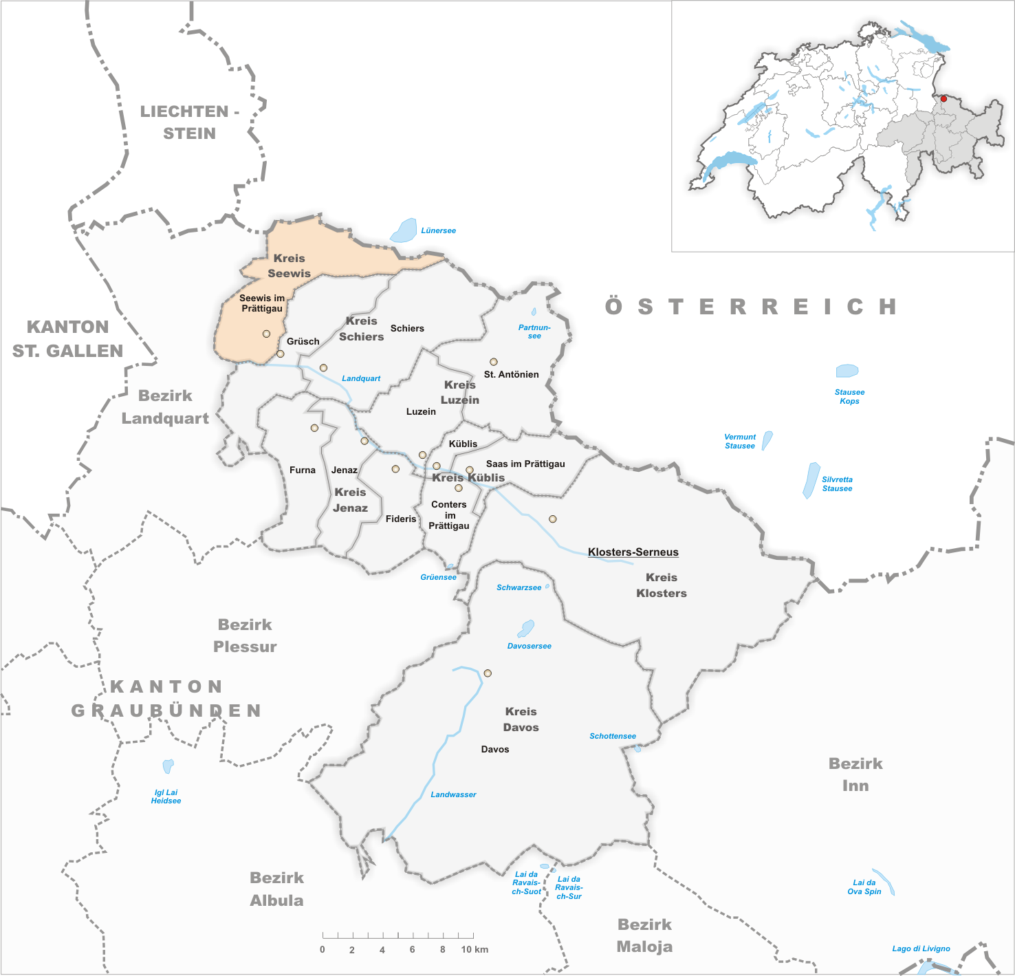 Municipality Seewis im Prättigau